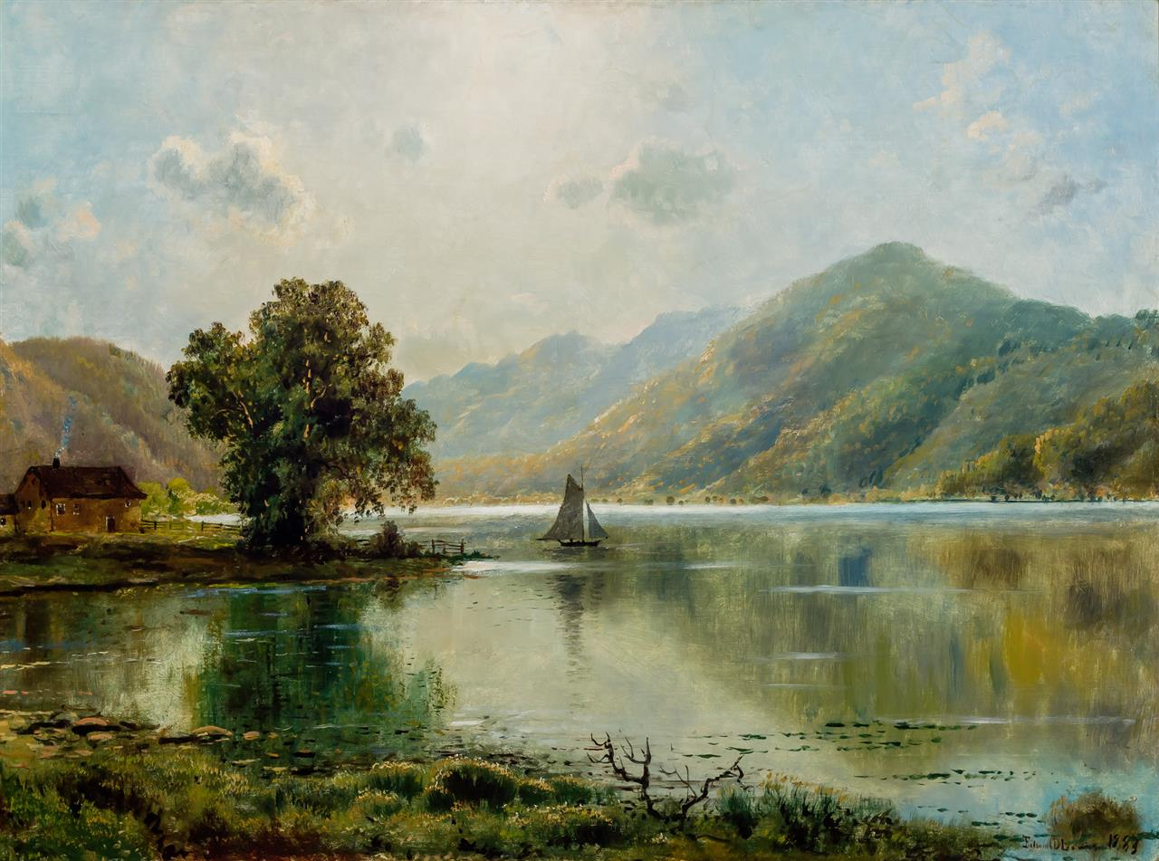 River Landscape, Lake George by Edmund Darch Lewis, oil on canvas, 1883, 30 x 40 inches